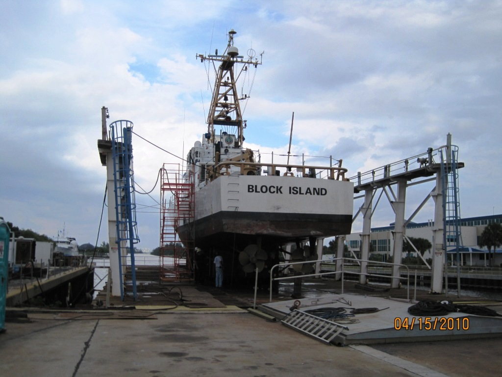 United States Coast Guard Cutter Block Island on a Marine Railway.